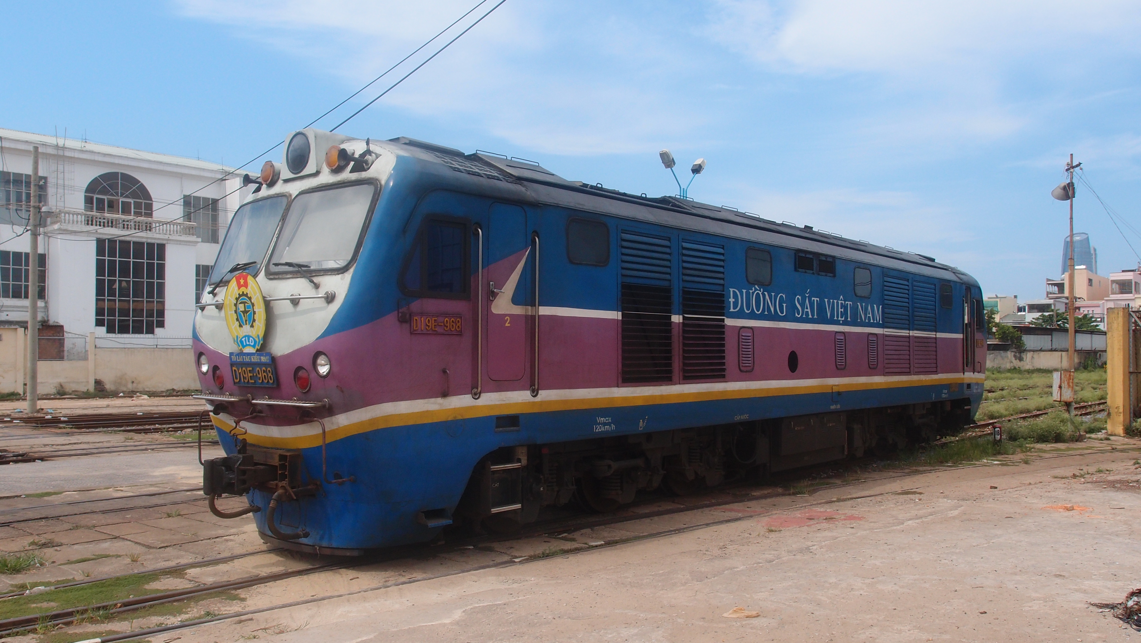 Đường Sắt Việt Nam / Vietnam Railways D19E-968 (built 2011 by CSR and the Gia Lâm works of ĐSVN) in Đà Nẵng after arrival with a passenger train.